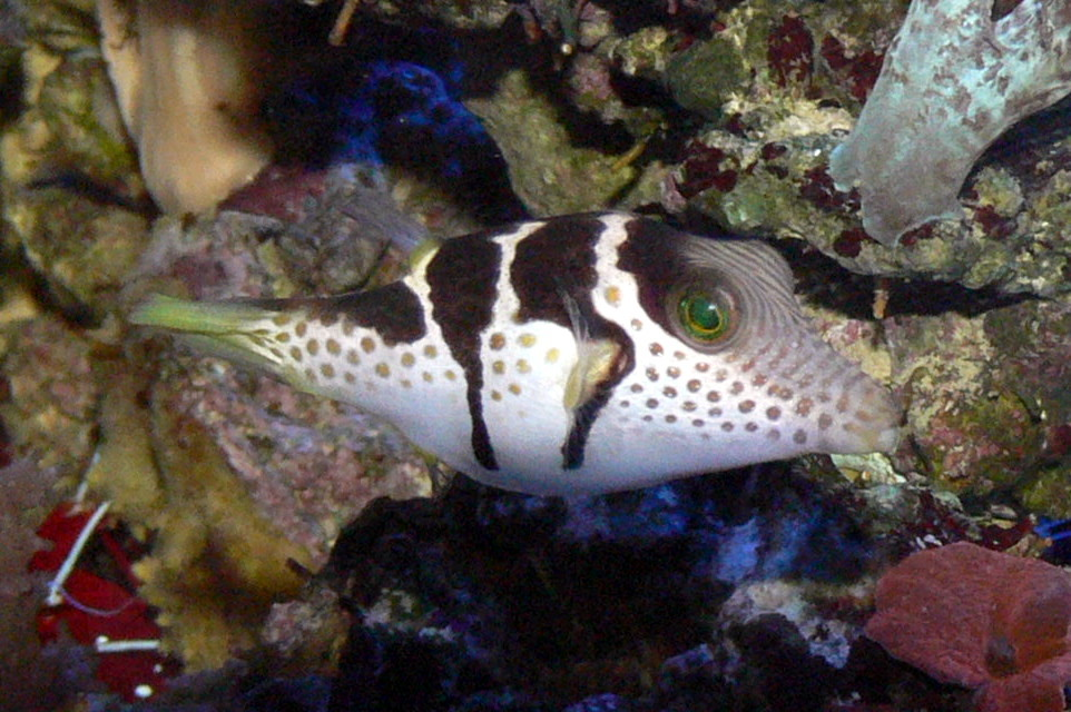 Canthigaster valentini